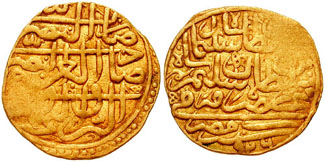 Turkey. Ottoman Empire. Suleiman I, the Magnificent. 1520-1566 AD. AV Sequin (20mm, 3.45 gm). Constantinople mint. Dated AH 926 (1520 AD). Arabic legend Arabic legend. Friedberg 1.